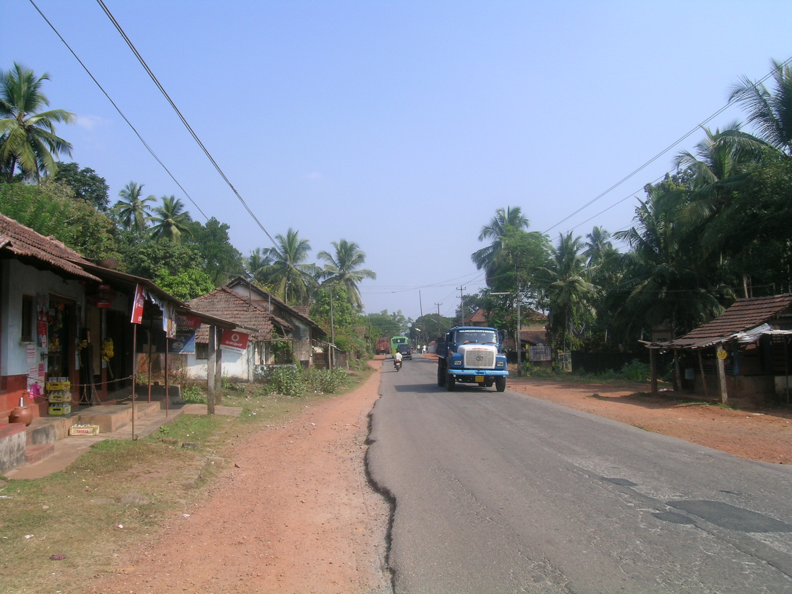 Main street that stretches for about a kilometer with shopping lines on both sides of the busy road.